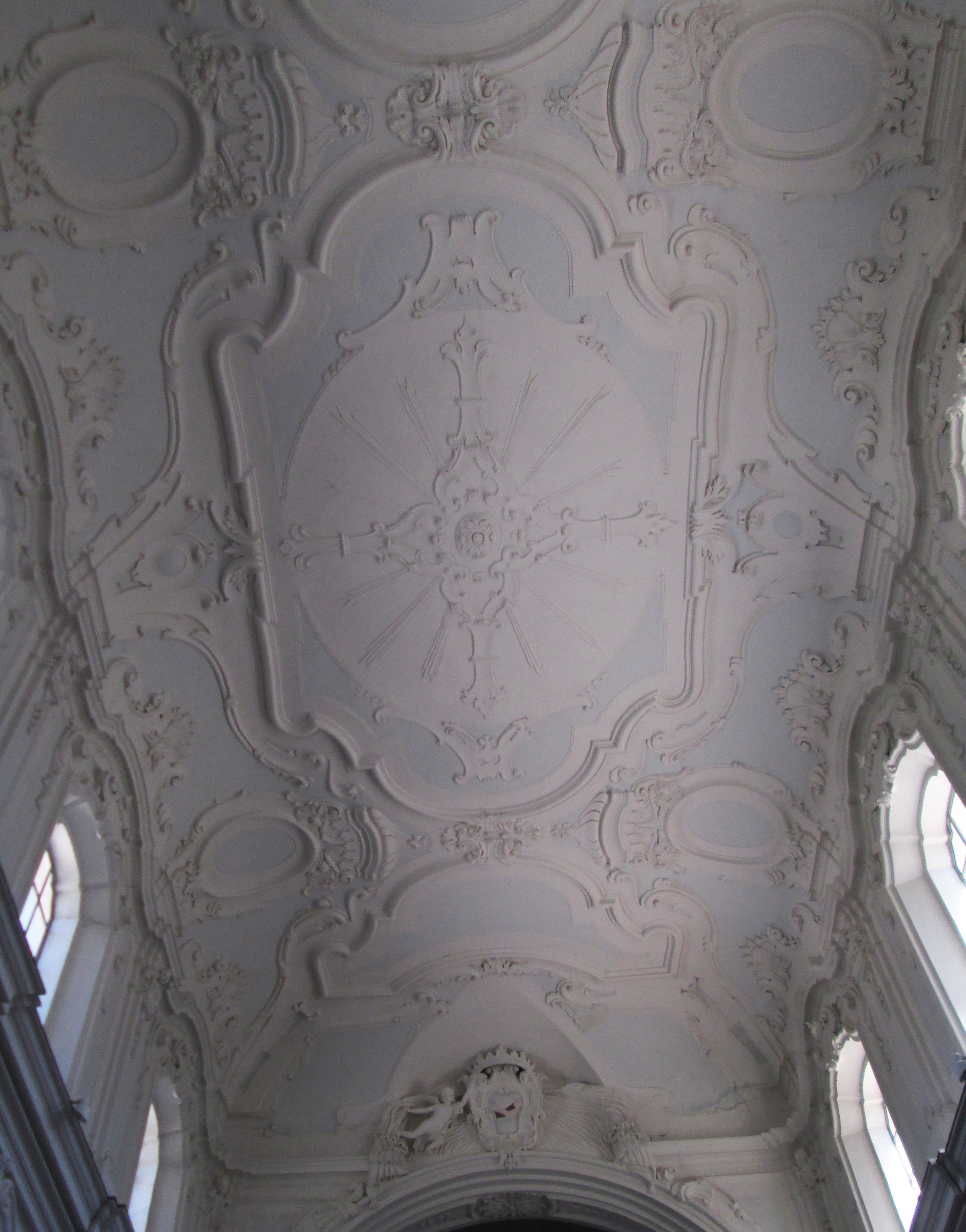 San Francesco a Folloni Church, Montella